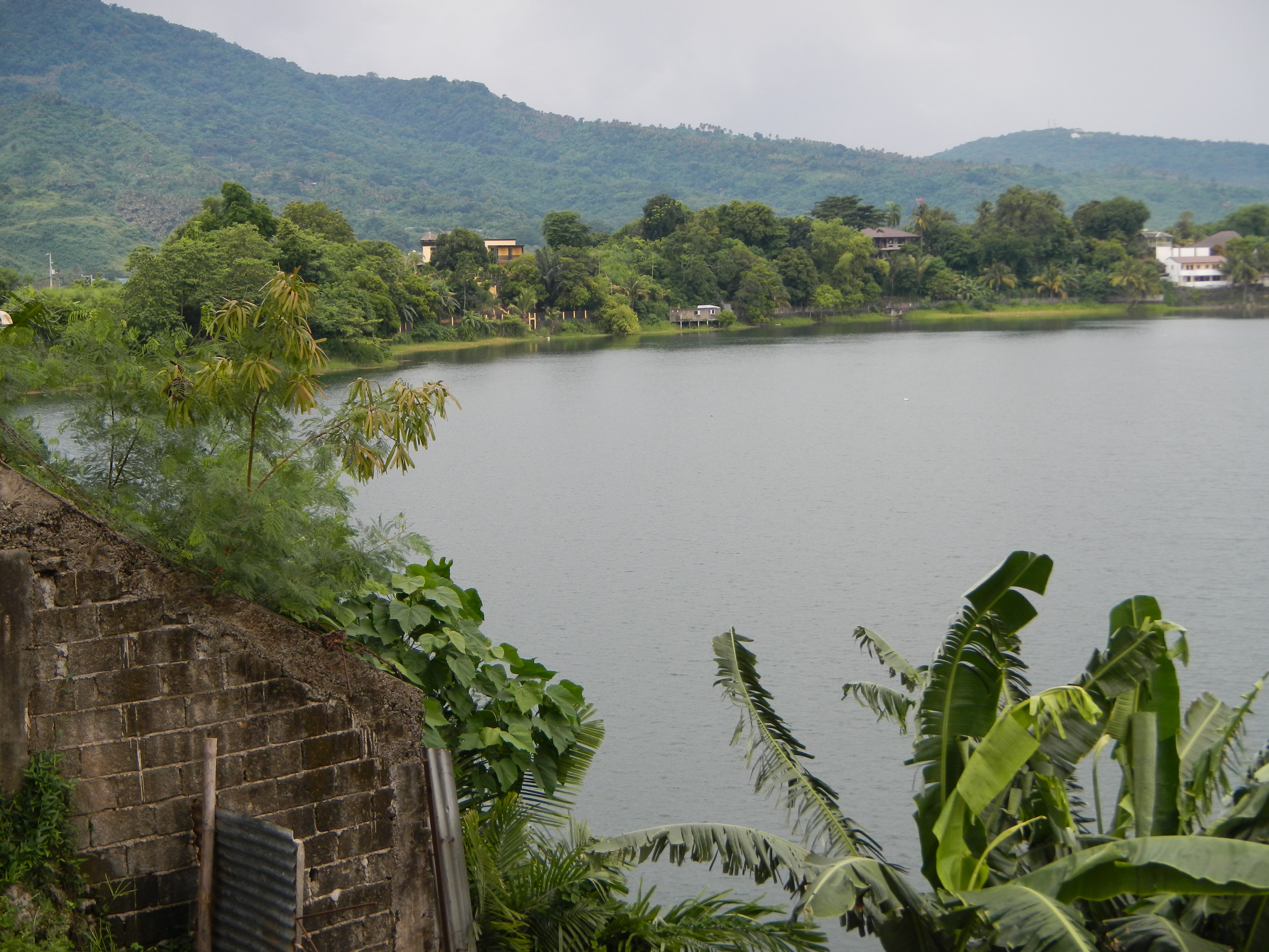 Scenic -- Alligator, Laguna Region IV-A Coordinates 14°10′57″N 121°12′23″E 23 hectares (57 acres) Surface elevation 2 metres (6.6 ft) - Tadlac Lake is one of the eight crater lakes within the Laguna de Bay watershed. Alligator Lake aka Enchanted Lake aka Tadlac Lake. ... List of lakes of the Philippines [1] Also known as Lake Tadlac, it is located along the shore of Laguna de Bay in Brgy. Tadlac, Los Baños - crater lak[2] [3] Multi-Stakeholders’ Efforts for the Sustainable Management of Tadlac Lake, the Philippines A Shower of Bee-eaters [4] Crocodile Lake is a mysterious lake know for its basin-like lake underwater geography, an extinct volcanic crater or maar leading into the core of the earth; Coordinates: 14°10'57"N 121°12'23"E [5] - Los Baños[6]